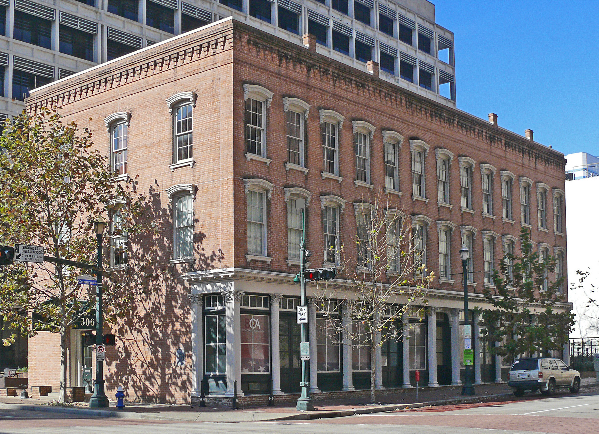 Pillot Building (1990 replica) — at 1006 Congress Ave., in Houston, Texas The original building at this location, owned by French-born merchant and Houston civic leader Eugene Pillot (1820-1896), was a cast iron columned brick structure, and was built between 1857 and 1869. Owned by Pillot heirs until 1944. Early tenants of the original building included: attorneys, real estate brokers, and a dry goods merchant. Subsequently a hotel, a barbershop, restaurants, and bars occupied the building. Original building listed on the National Register of Historic Places in 1974. The structure suffered severe damage in the 1980s and collapsed in 1988. A replica, incorporating some of the original cast iron columns, sills, and lintels, was completed in 1990. Replica removed from the National Register of Historic Places in 1994.